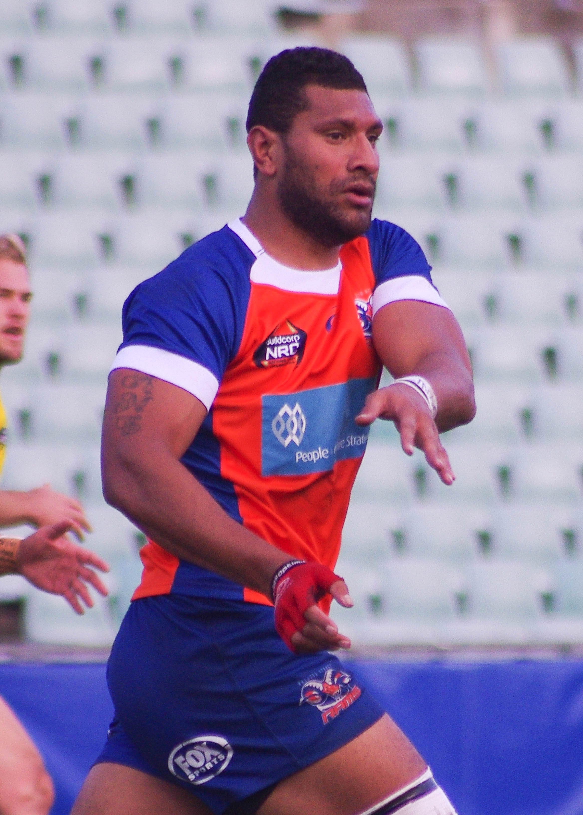 Australian-Tongan rugby union player Steve Mafi.